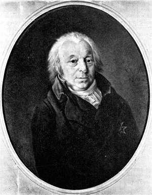 Portrait of Pieter Leonard van de Kasteele (1748-1810), Dutch politician, patriot and poet.